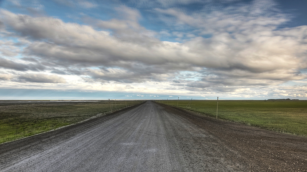 The Dalton highway as seen from Deadhorse, Alaska, facing south.